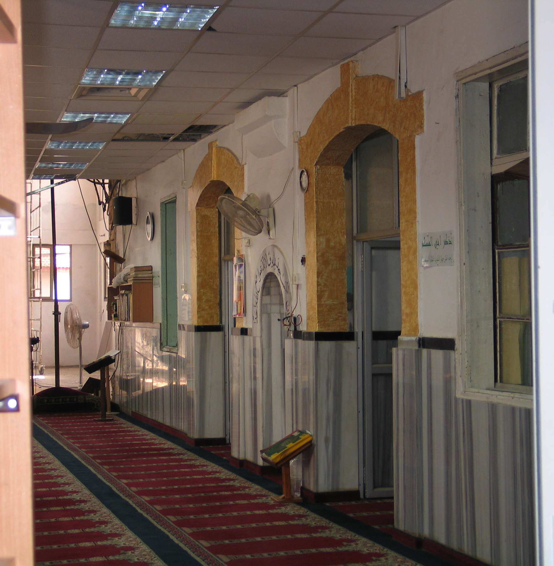 Qalansuwa, Israel. A mosque built upon ruins of a crusader hall.